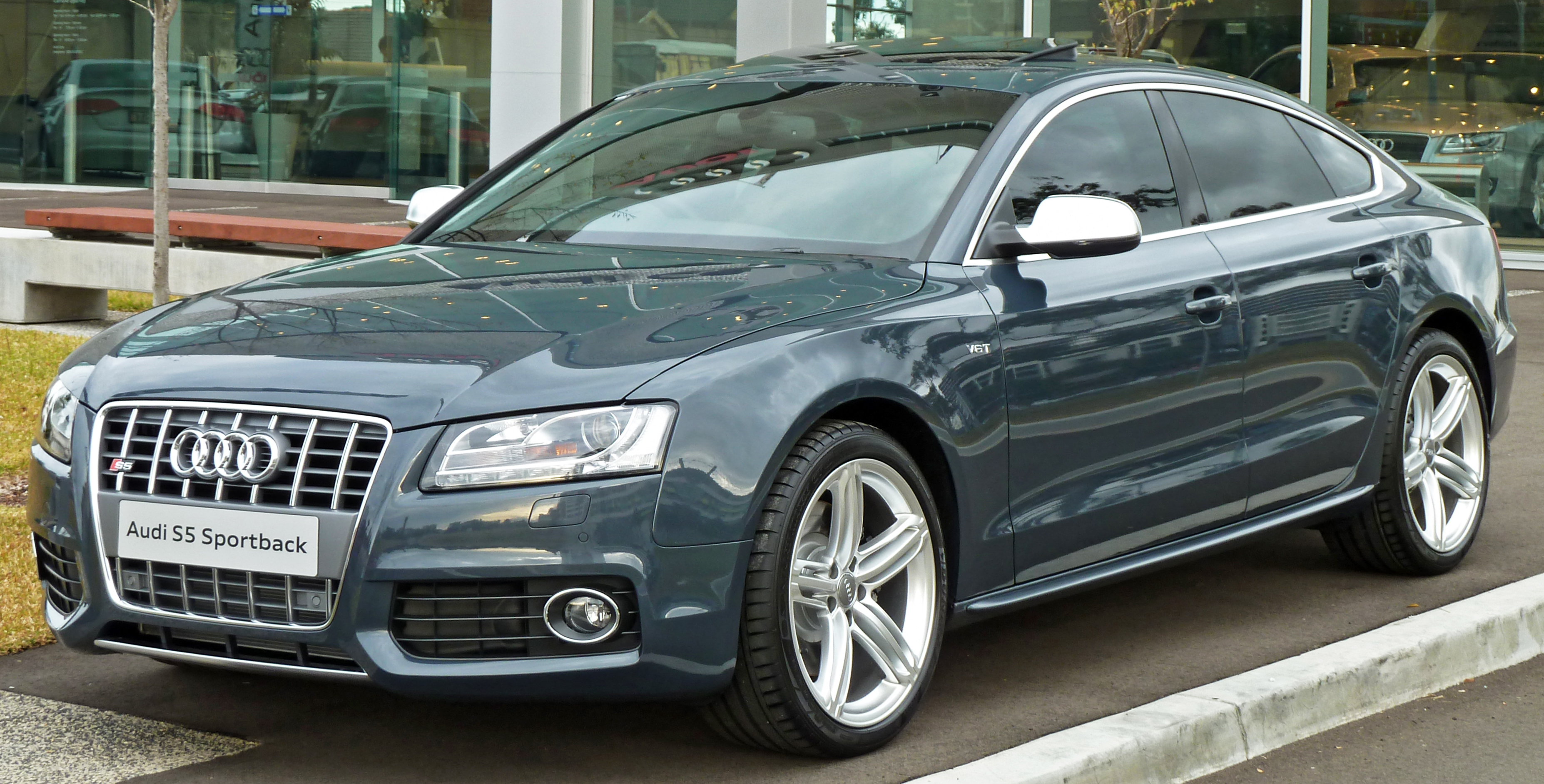 2010 Audi S5 (8T) Sportback. Photographed at the Audi Centre Sydney, Zetland, New South Wales, Australia.